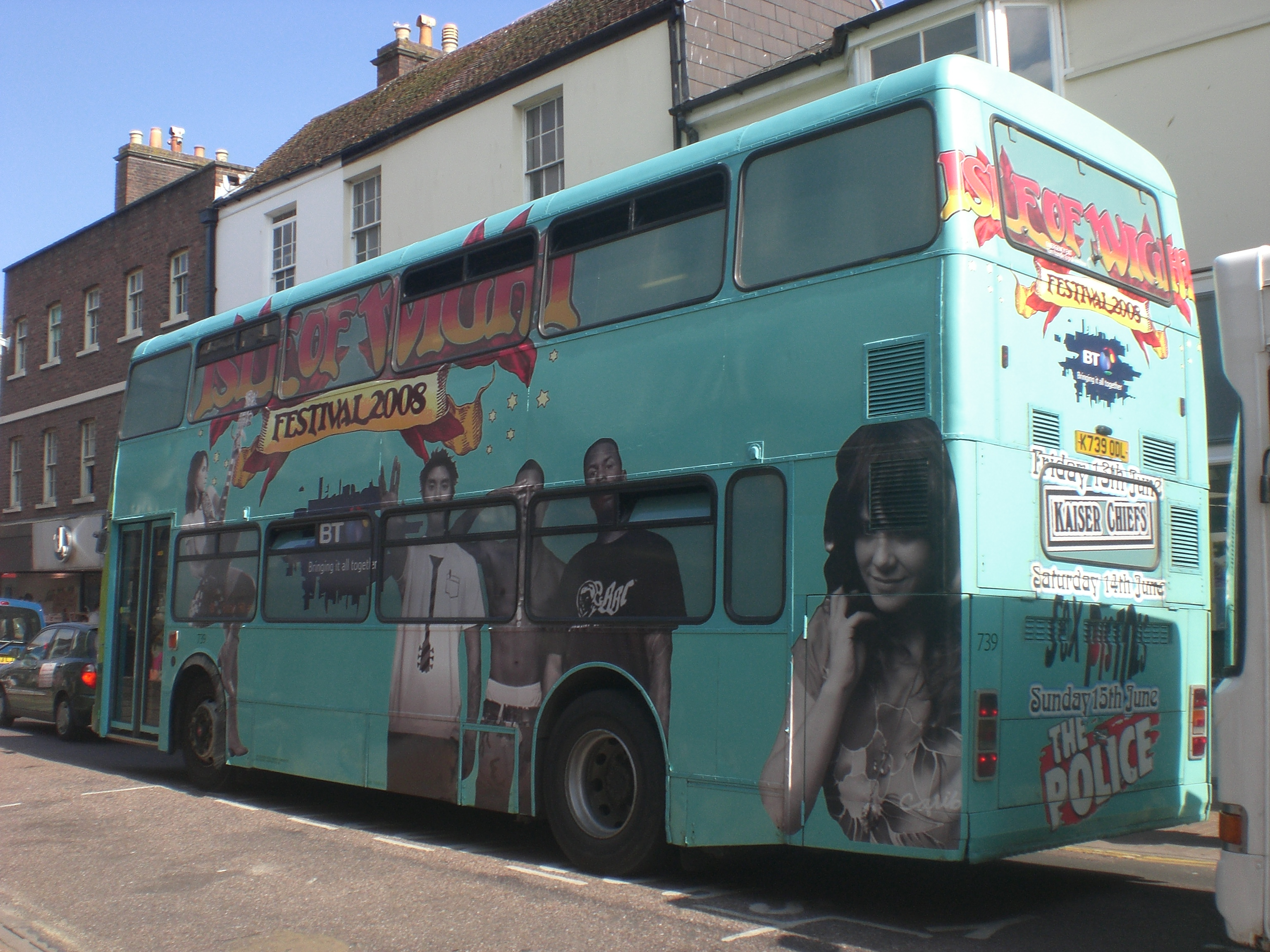 The rear of Southern Vectis 739 Reeth Bay (K739 ODL), a Leyland Olympian/Northern Counties Palatine, in Newport High Street, Isle of Wight. As can be seen, it is wearing an all-over advert for the 2008 Isle of Wight Festival.